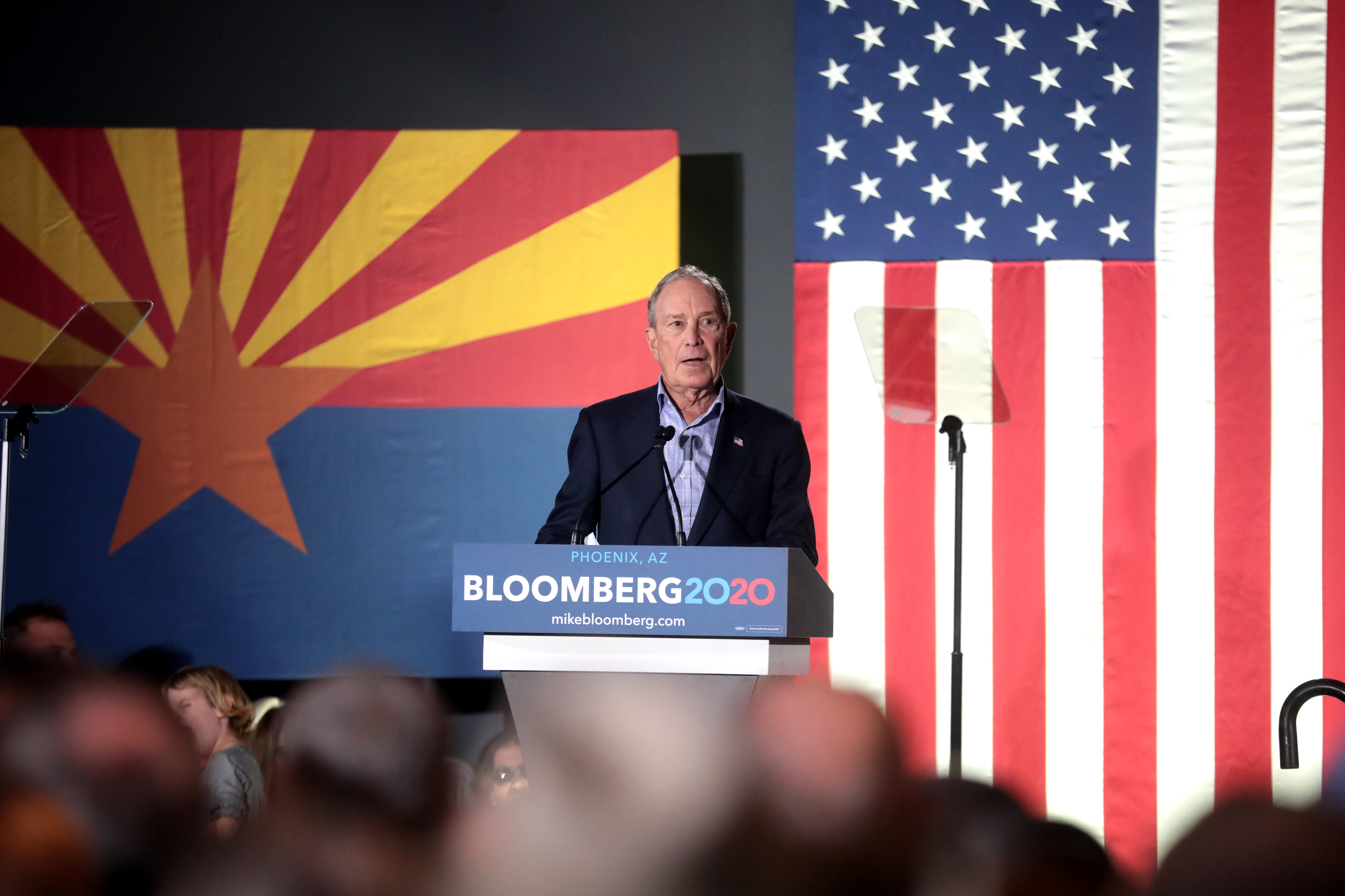 Former Mayor Mike Bloomberg speaking with supporters at a campaign rally at Warehouse 215 at Bentley Projects in Phoenix, Arizona.